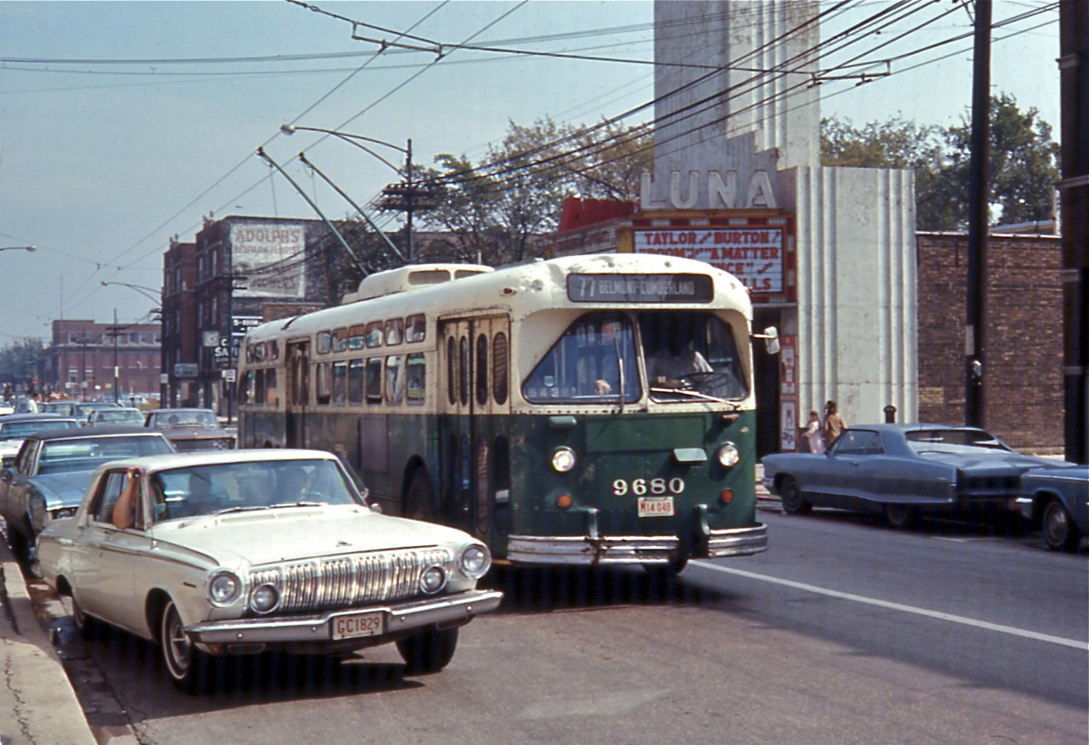 Chicago trolleybus 9680, built in 1952 by Marmon-Herrington, on Belmont Avenue at Cicero Avenue, in service on route 77-Belmont. Trolleybus service in Chicago ended in 1973. (From the original Flickr page: The Luna Theater closed in the early 1980's and was demolished in 1986.)